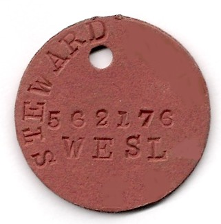 One of two "dogtags" issued to members of the South African Navy during World War 2